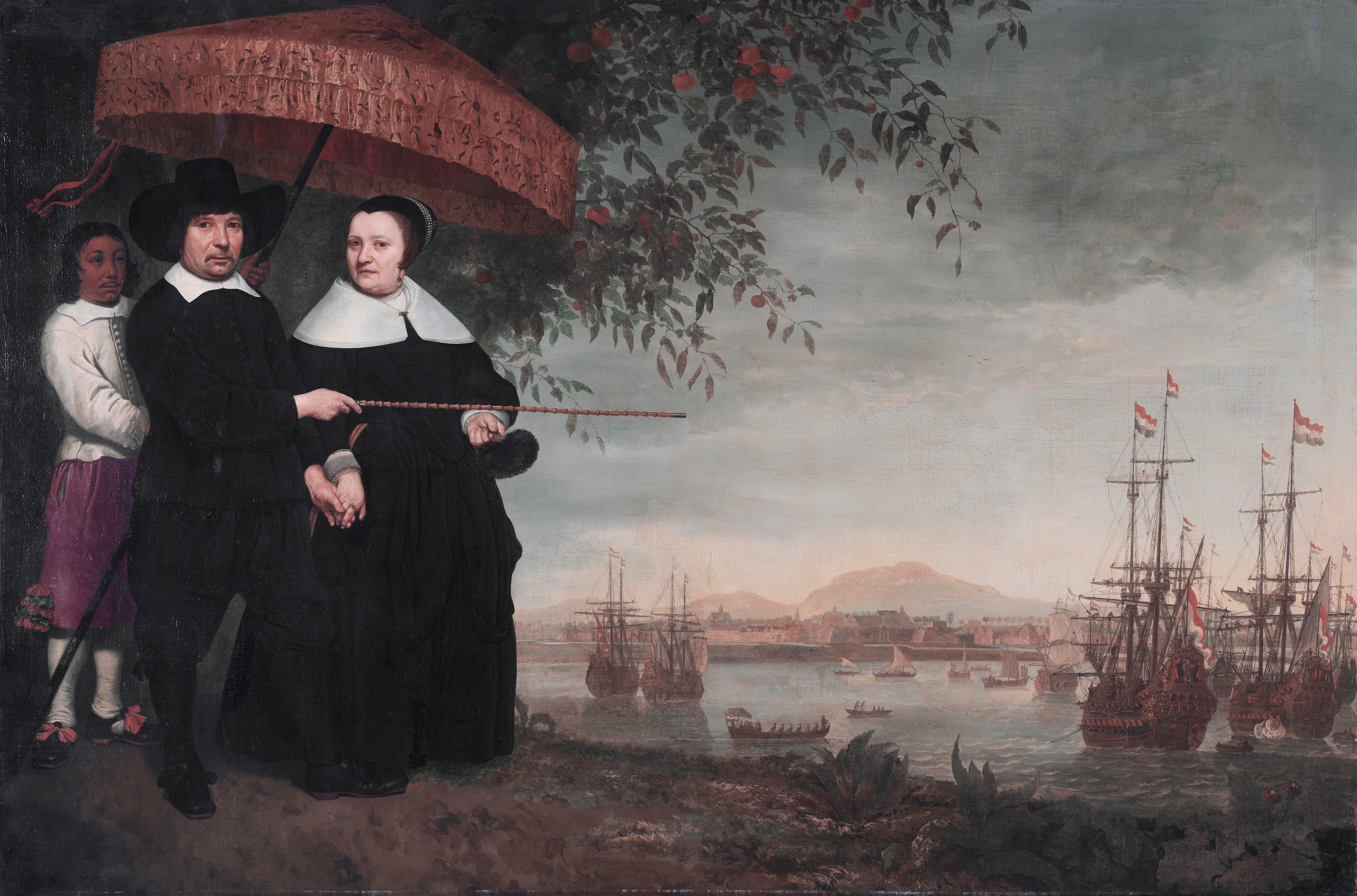 A Senior Merchant of the Dutch East India Company, presumably Jacob Mathieusen, and his wife; in the background the fleet in the roads of Batavia. oil on canvas 138 × 208 cm 1650 - 1659